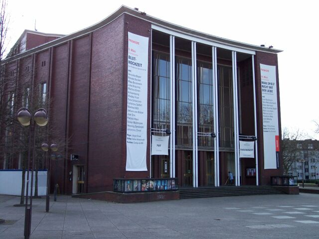 Bochum, Germany: Schauspielhaus (drama theatre)